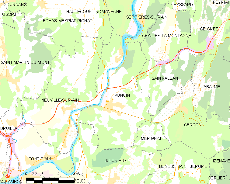 Map of French commune: Poncin Map commune FR insee code 01303.png